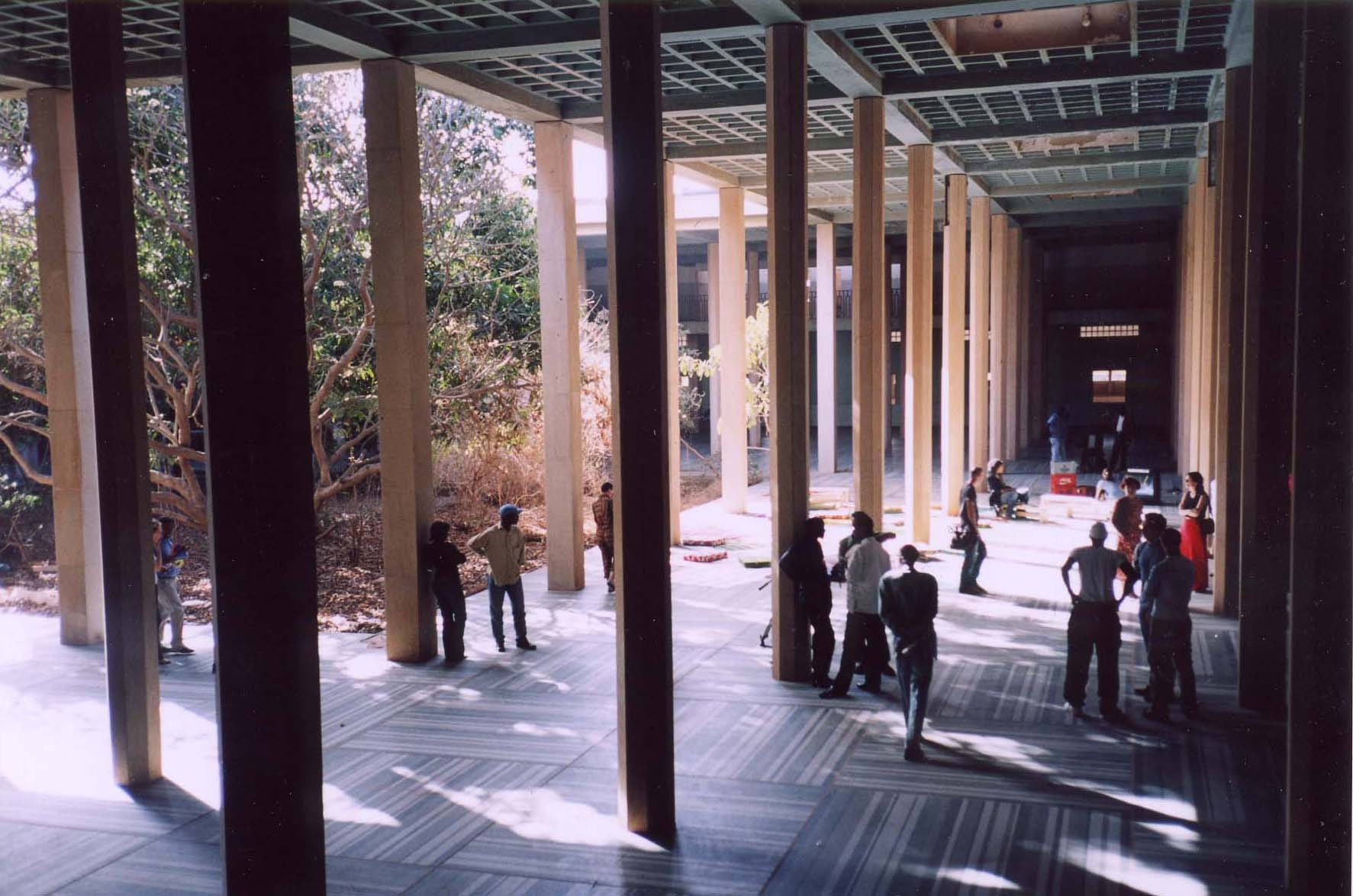 Dakar Biennale 2004. Photo by Iolanda Pensa.